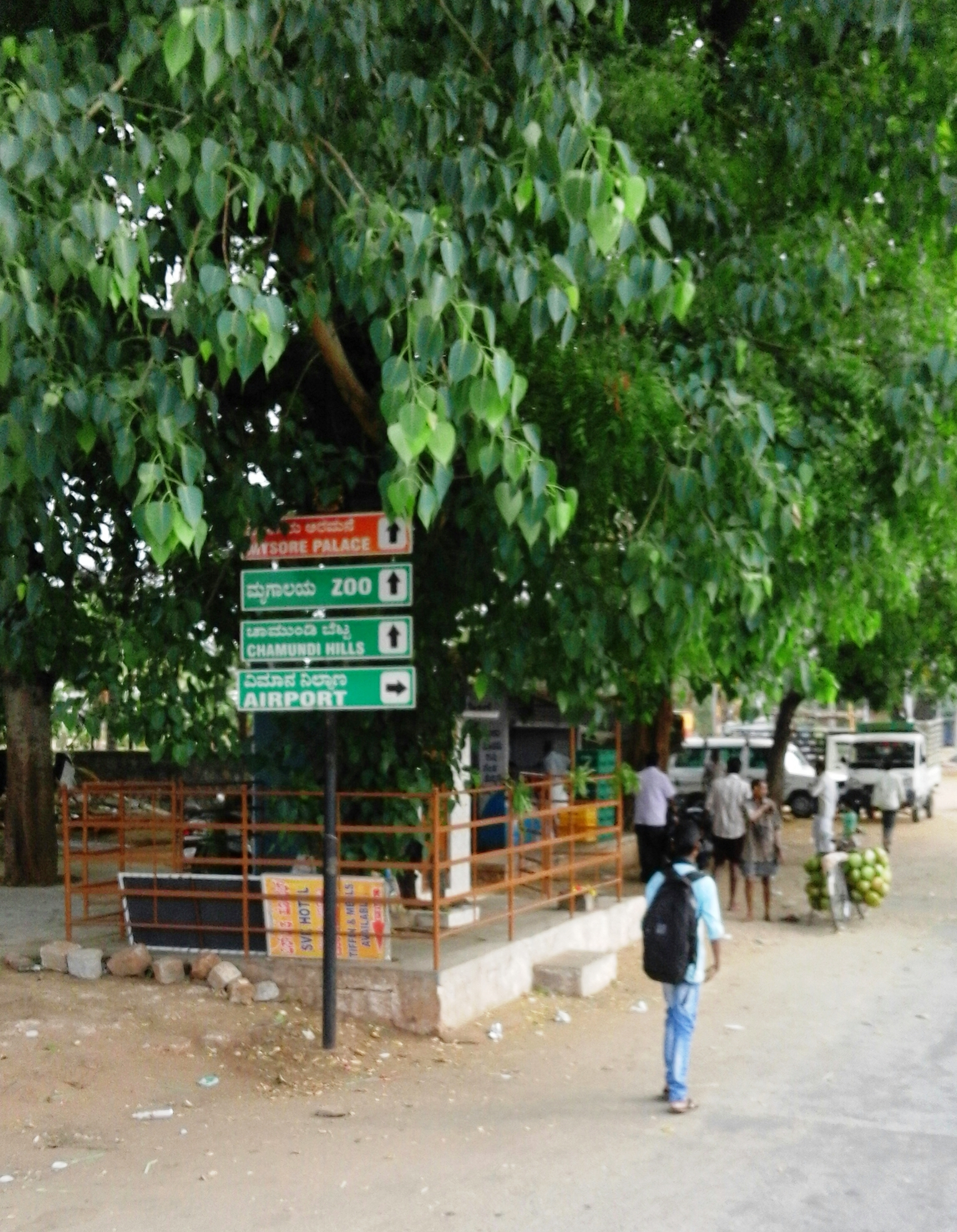 Mananthavady Road, Mysore district, Karnataka province, India.